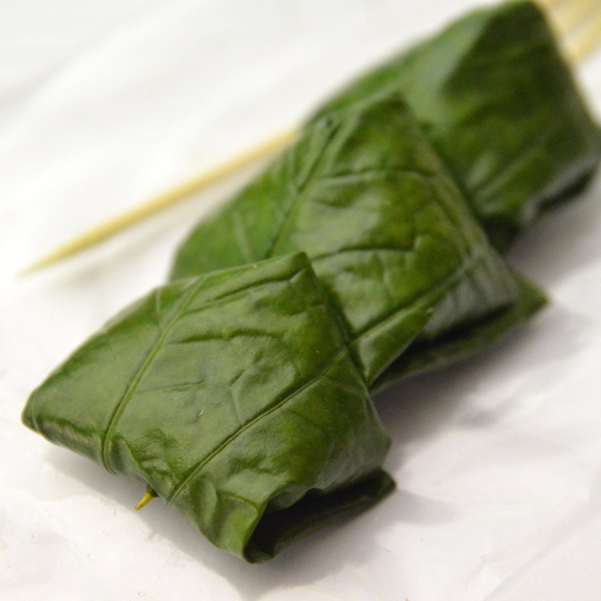 Pre-wrapped miang kham (Thai script: เมี่ยงคำ) can be found at many markets and fairs in Thailand. It is made by wrapping dried shrimp, peanuts, shallots, lime and toasted coconut inside the slightly bitter chaphlu leaves (Thai script: ชะพลู; "Piper sarmentosum") together with a sticky sweet sauce made with palm sugar.